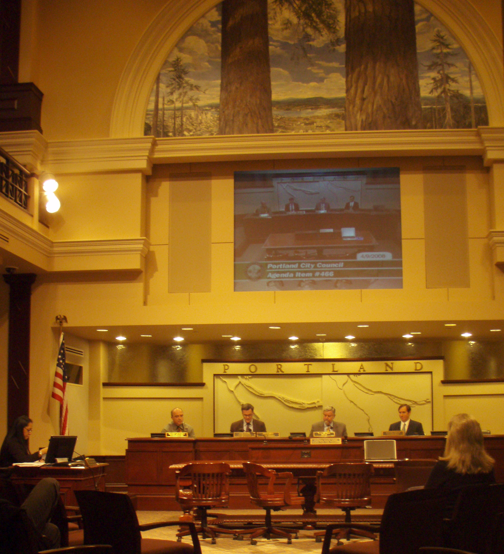 Portland City Council in chambers at Portland City Hall in Portland. From left, Randy Leonard, Sam Adams, Mayor Tom Potter, Dan Saltzman. Session was shortly after retirement of Erik Sten; Adams was elected this morning to succeed Sten as Council President (as indicated by the second plaque in front of his seat.)